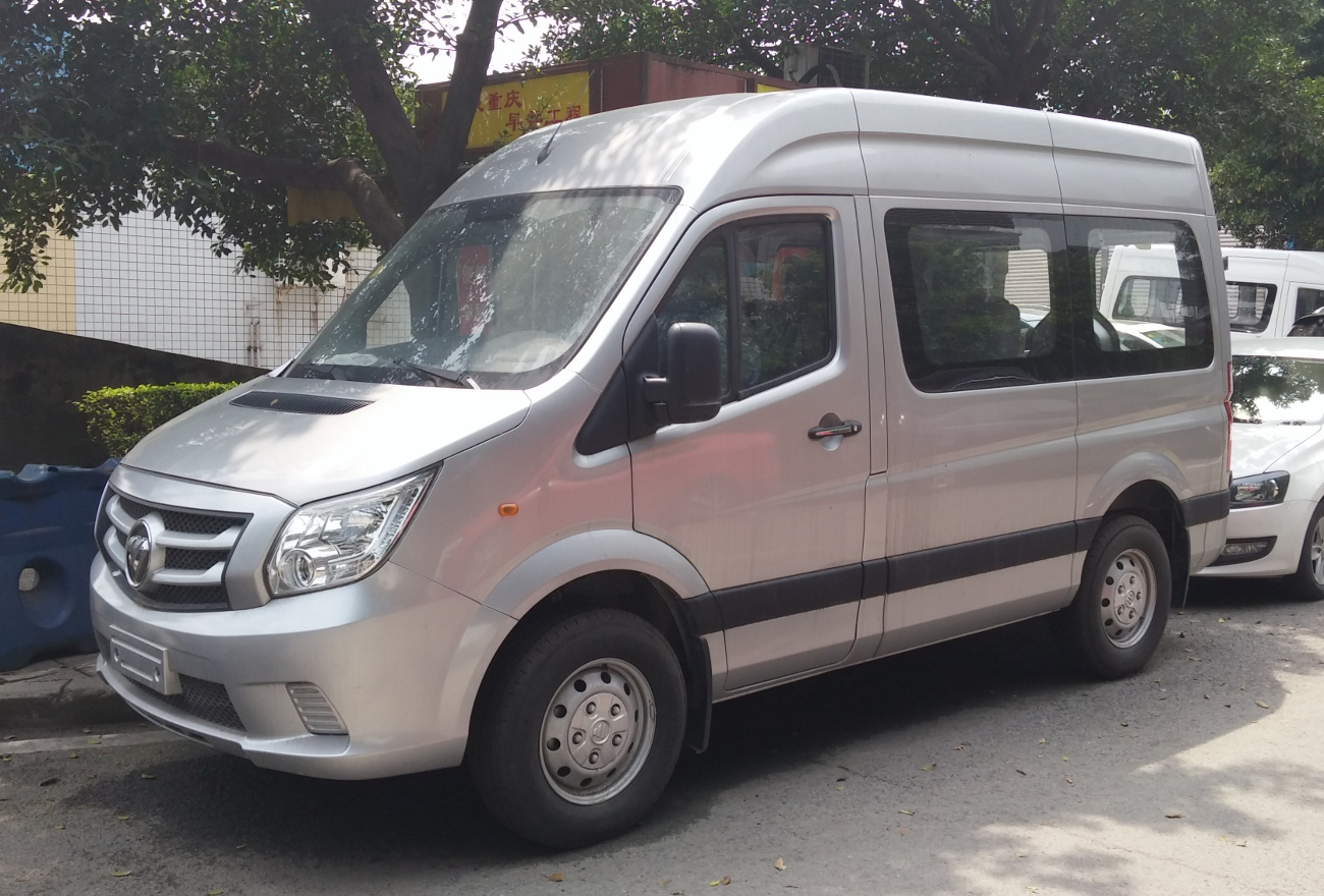 Foton Toano SWB photographed in Chongqing, China.